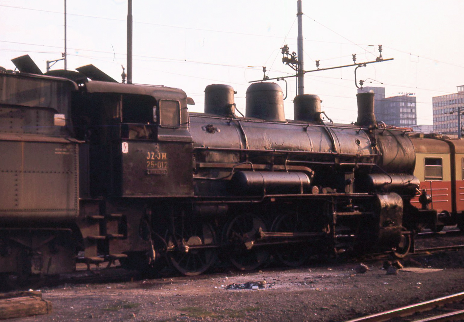 Jugoslav Railways (JZ) 25 Class 2-8-0 at Ljubljana shed